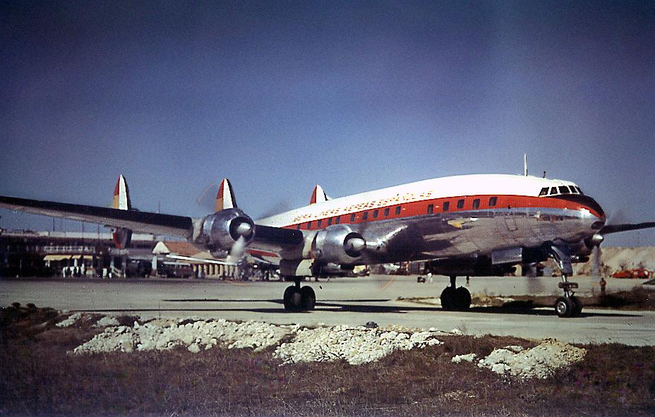 Iberia Lockheed Super Constellation